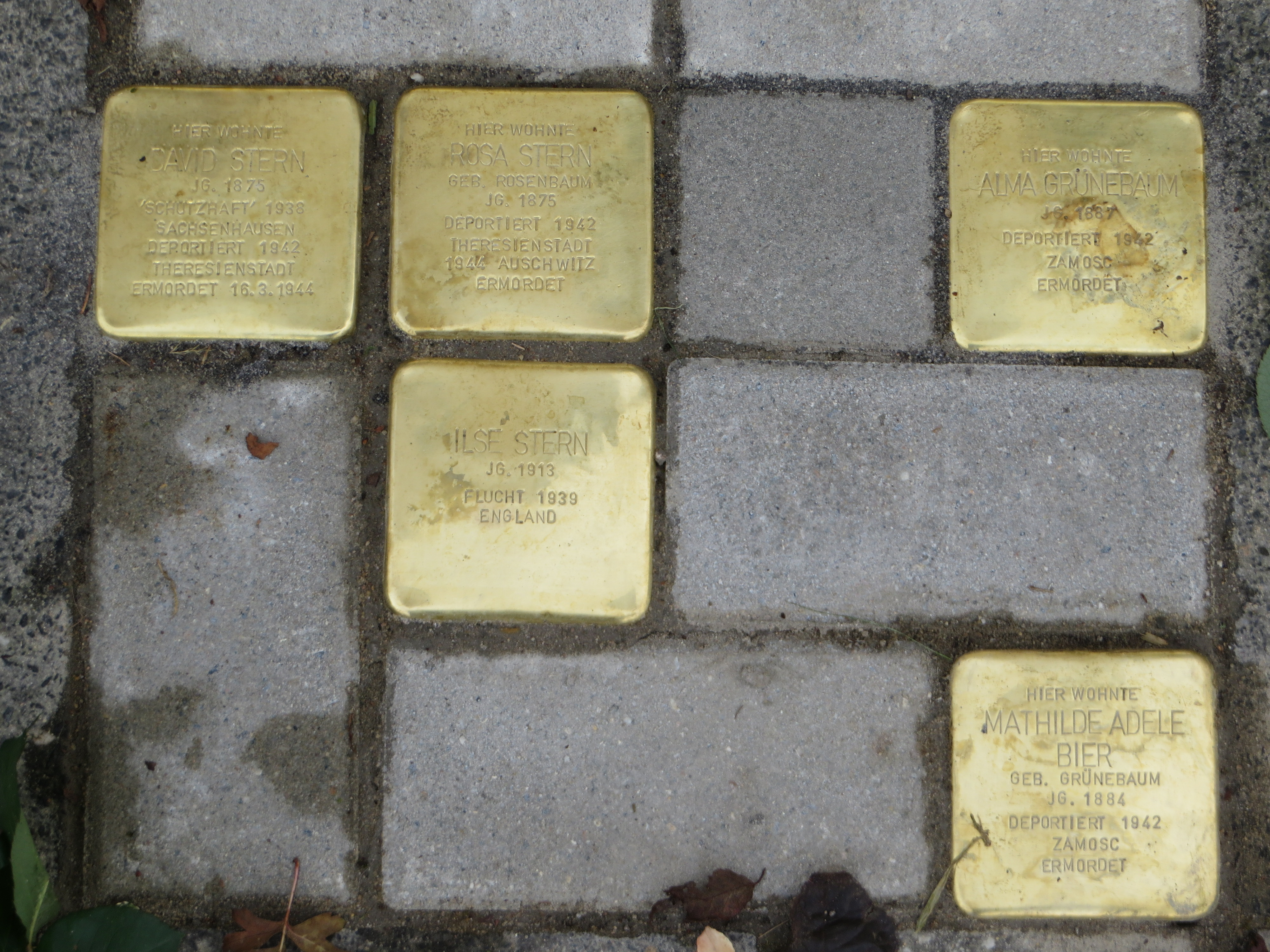 Stolpersteine at house Gerberstraße 9 in Witten, Germany